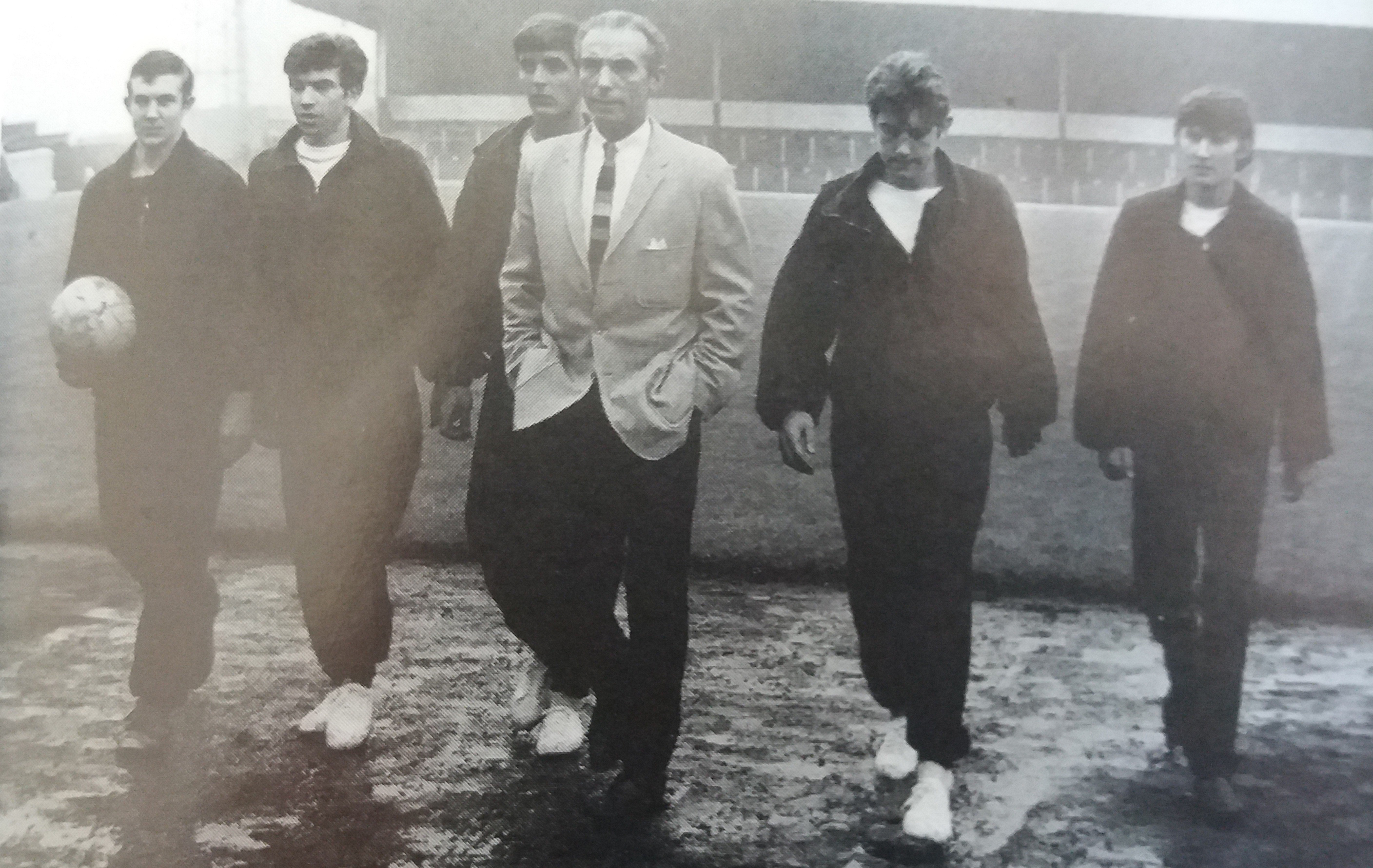 Stanley Matthews with some of the young players at Port Vale. Brian Wharburton, Paul Bannister, John James, John Bostock and Stan Turner. At one stage the oldest player in the forward line was just 18 - the youngest ever forward line-up in league football.